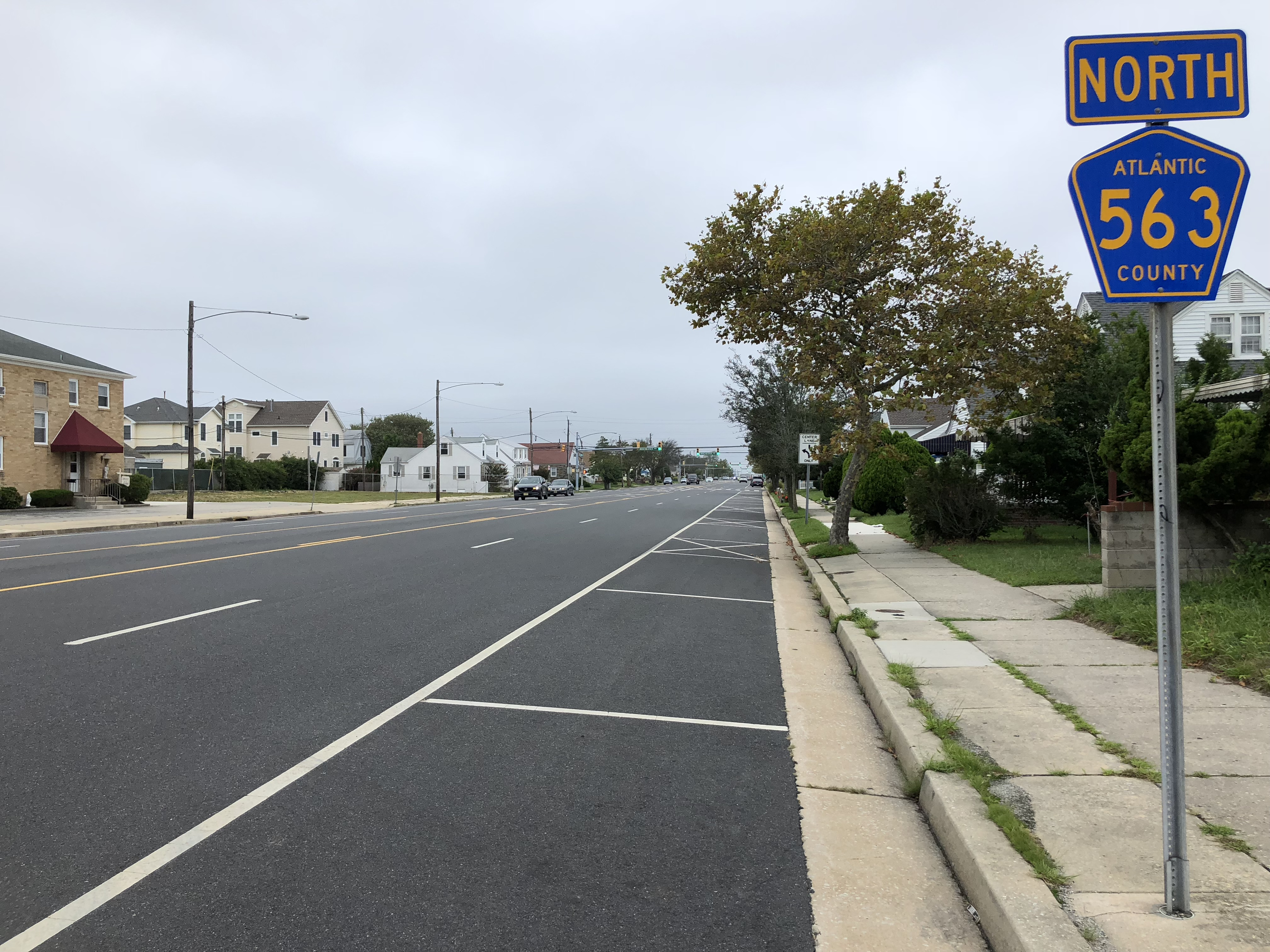 View north along Atlantic County Route 563 (Jerome Avenue) just north of Atlantic County Route 629 (Ventnor Avenue) in Margate City, Atlantic County, New Jersey